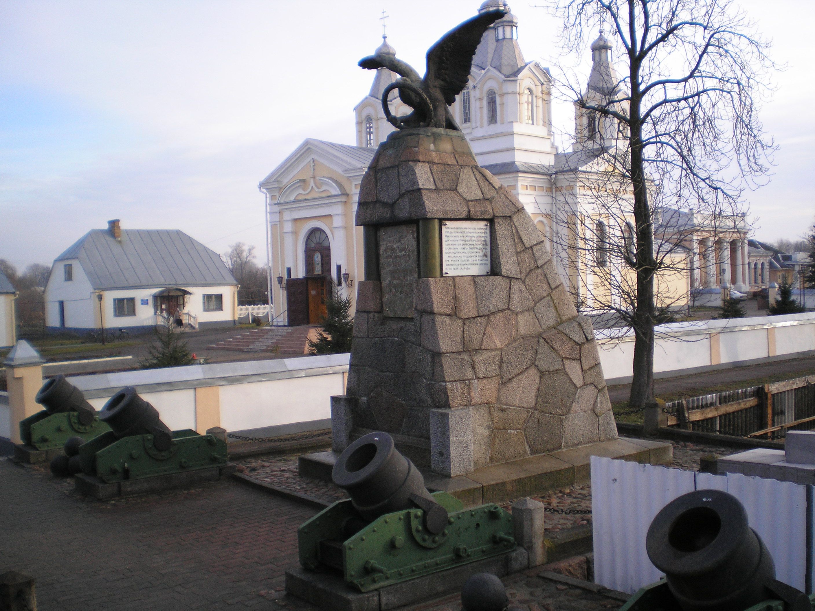 Monument of the victory of Russian army in the Kobrin Battle (1812)